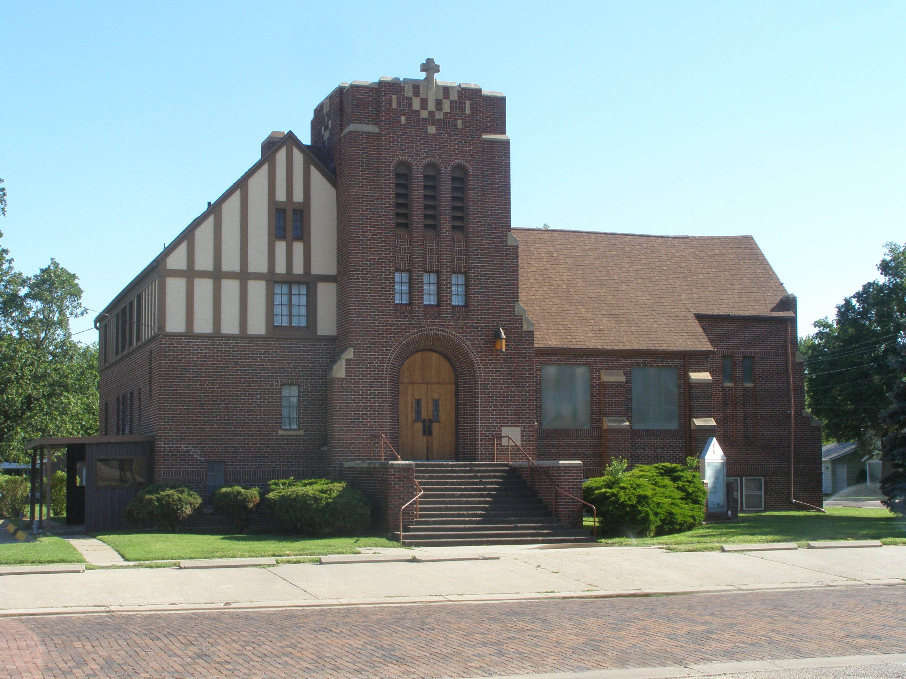 United Methodist Church in Ellinwood, Kansas on West Santa Fe Blvd.